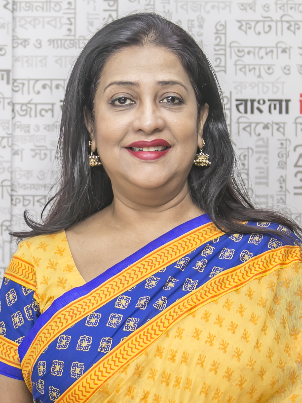 Suborna Mustafa is an actress in the screen of Bangladesh media industry